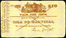 Promissory note issued by Luis Vernet to employees working for him in his settlement at Port Louis (Puerto Luis) in the Falkland Islands. Copyright has expired.